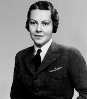 An photo of Sabiha Gokcen, first Turkish female aviator, date 1930s (Cropped for infobox)